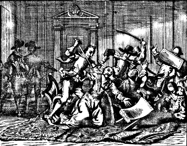 Portuguese led by Antonio Barboso the Draque, Francisco de Brito and Francisco Daluim stabing Jayavira Bandara Mudali, his brother in law and guards.